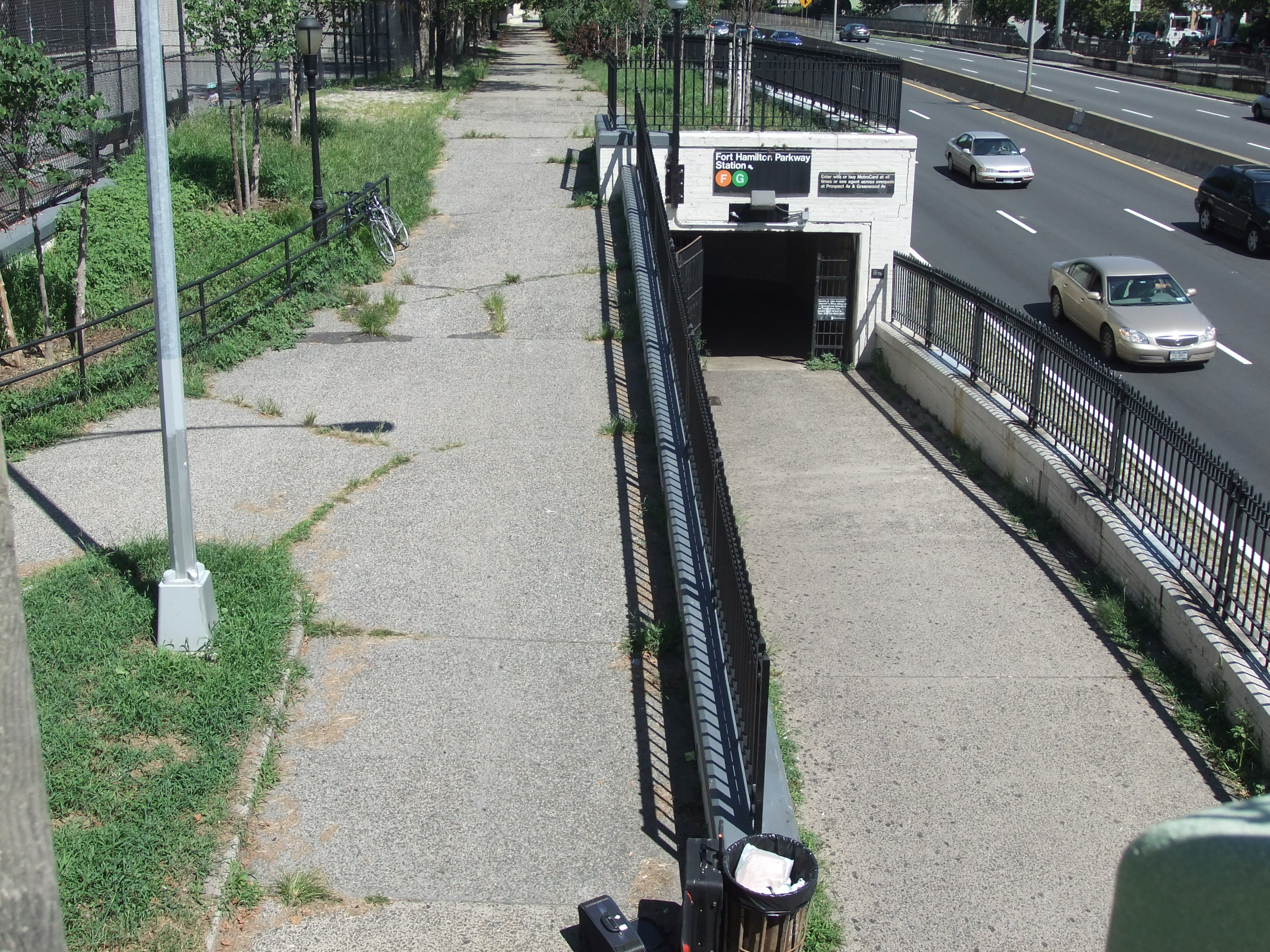 Ft Hamilton Pkwy, South Ramp.